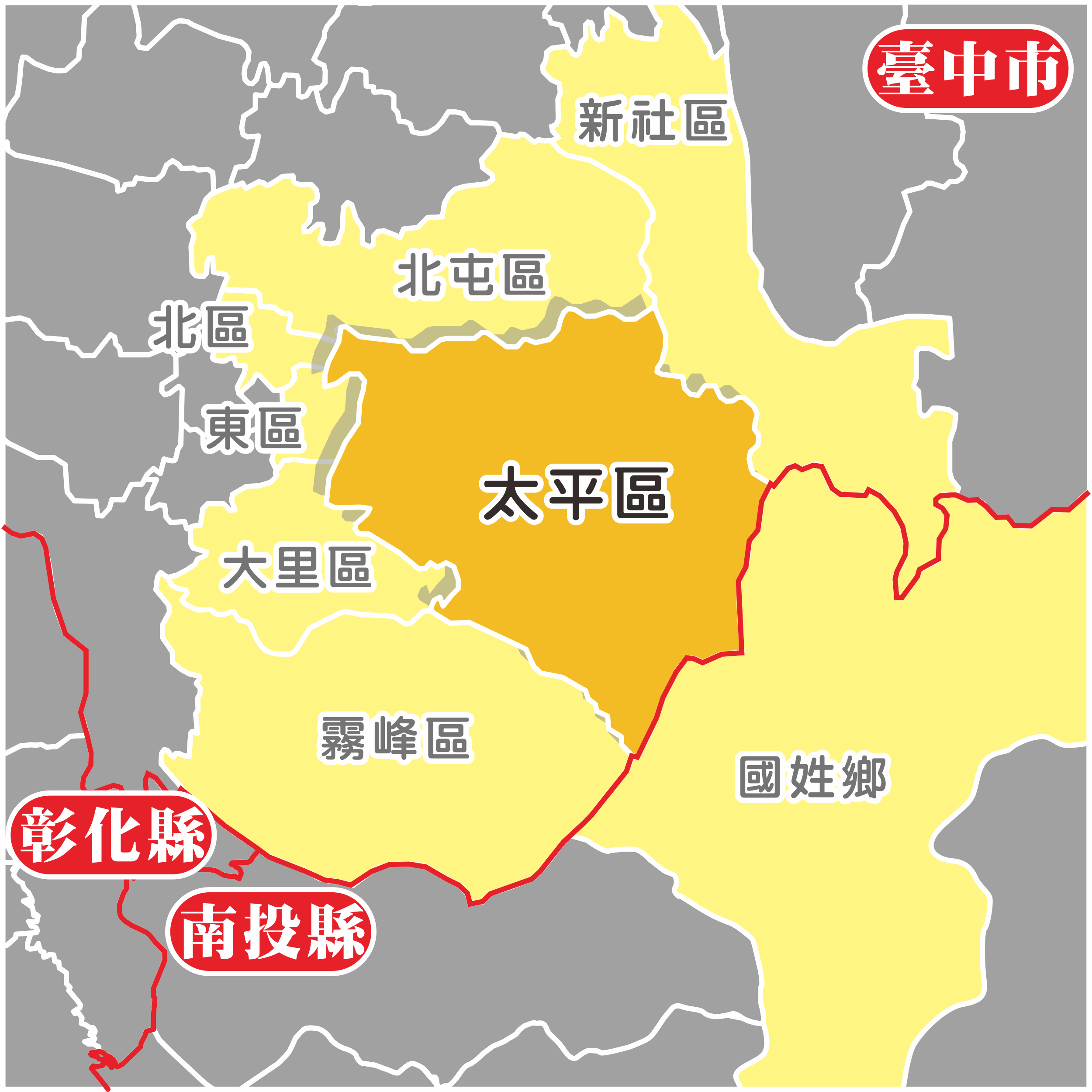 Taiping Diatrict